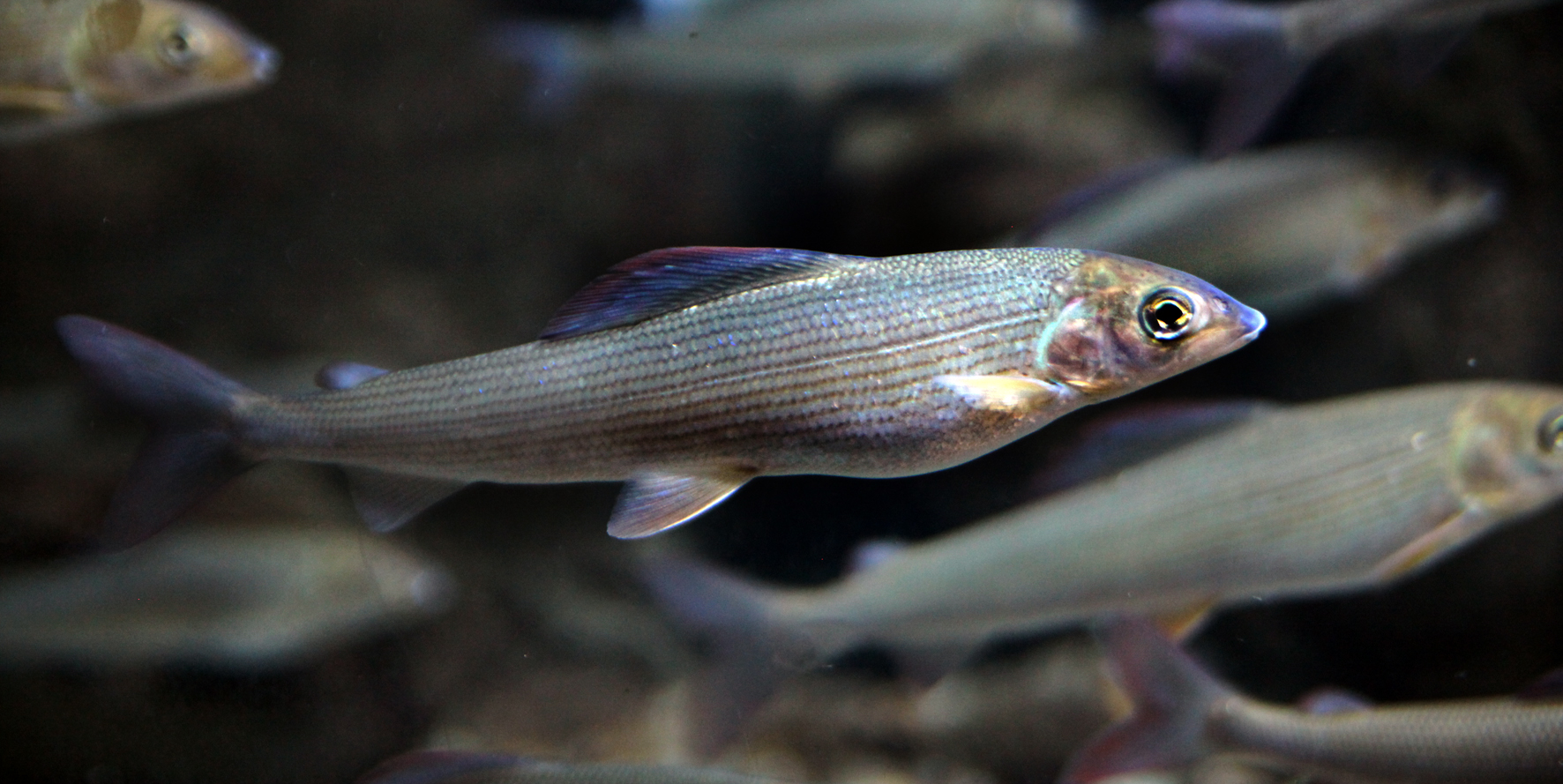 Thymallus thymallus in Acquario Civico, Milan